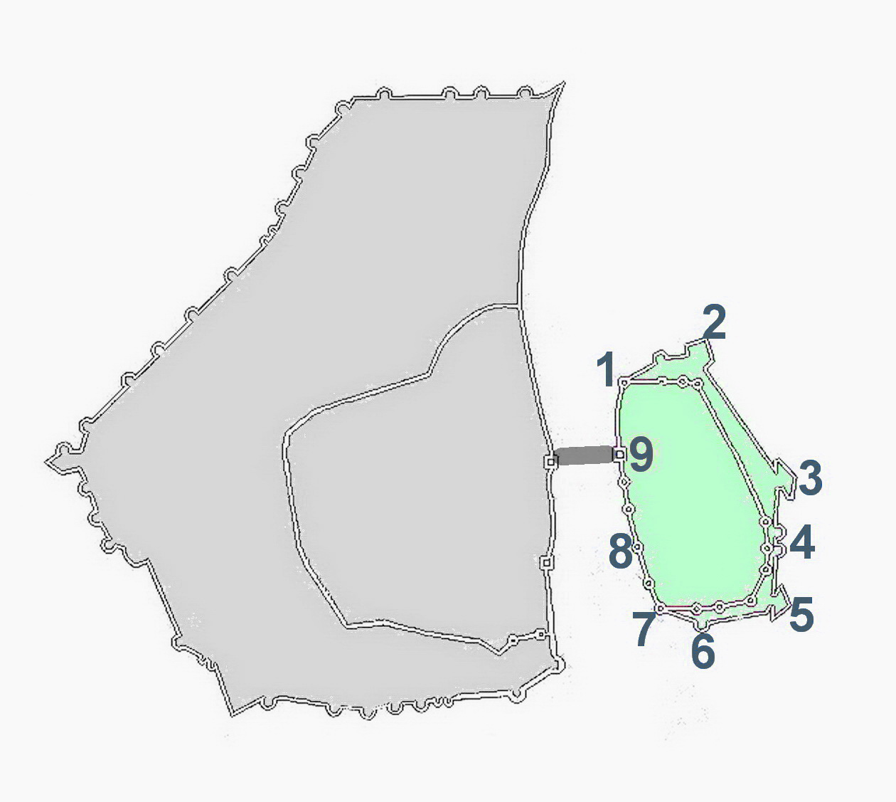 Stylized map of the medieval city of Maastricht, the Netherlands, showing the first medieval city wall (ca 1230). The bridge accross the river Meuse connects the two parts of the city. The names of gates, towers and bullwarks on the right bank ("Wyck") are given below: 1.Wycker Kruittoren · 2.Sint-Maartenspoort · 3.Mariabolwerk · 4.Duitse Poort · 5.Bloemendael · 6.Recentoren · 7.Lambrechtsrondeel · 8.Waterpoortje · 9.Körverpoort.